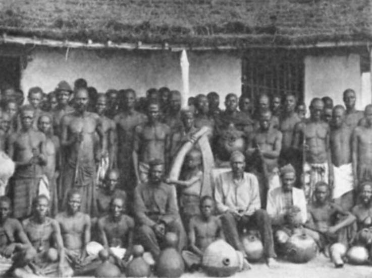 A group of Baluba natives (Von Wissmann's expedition.) (1908) (1908)